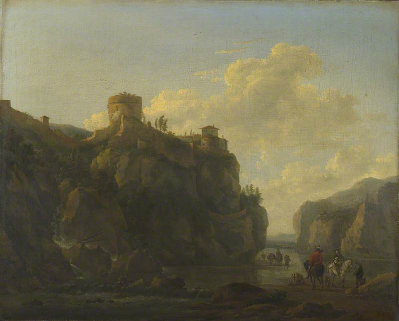 A River between Rocky Cliffs, with a Waterfall on the left